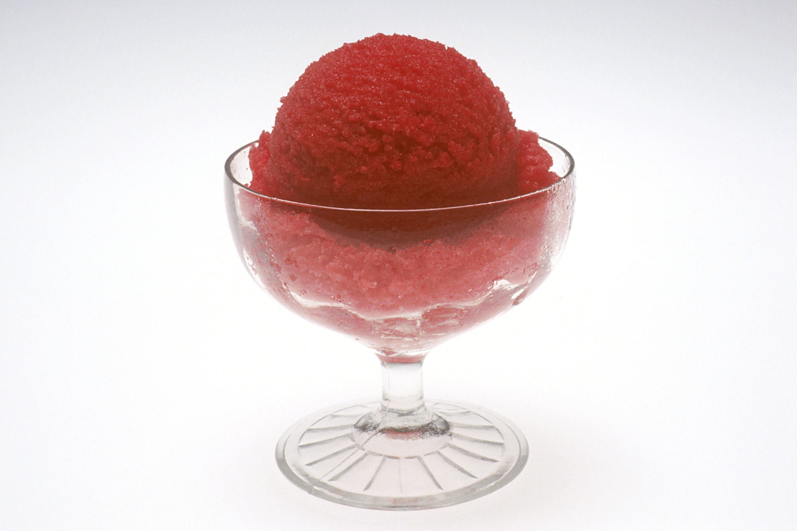 Title Sherbet Description A glass dessert cup of raspberry sherbet. Topics/Categories Food and Drink Type Color, Photo Source National Cancer Institute